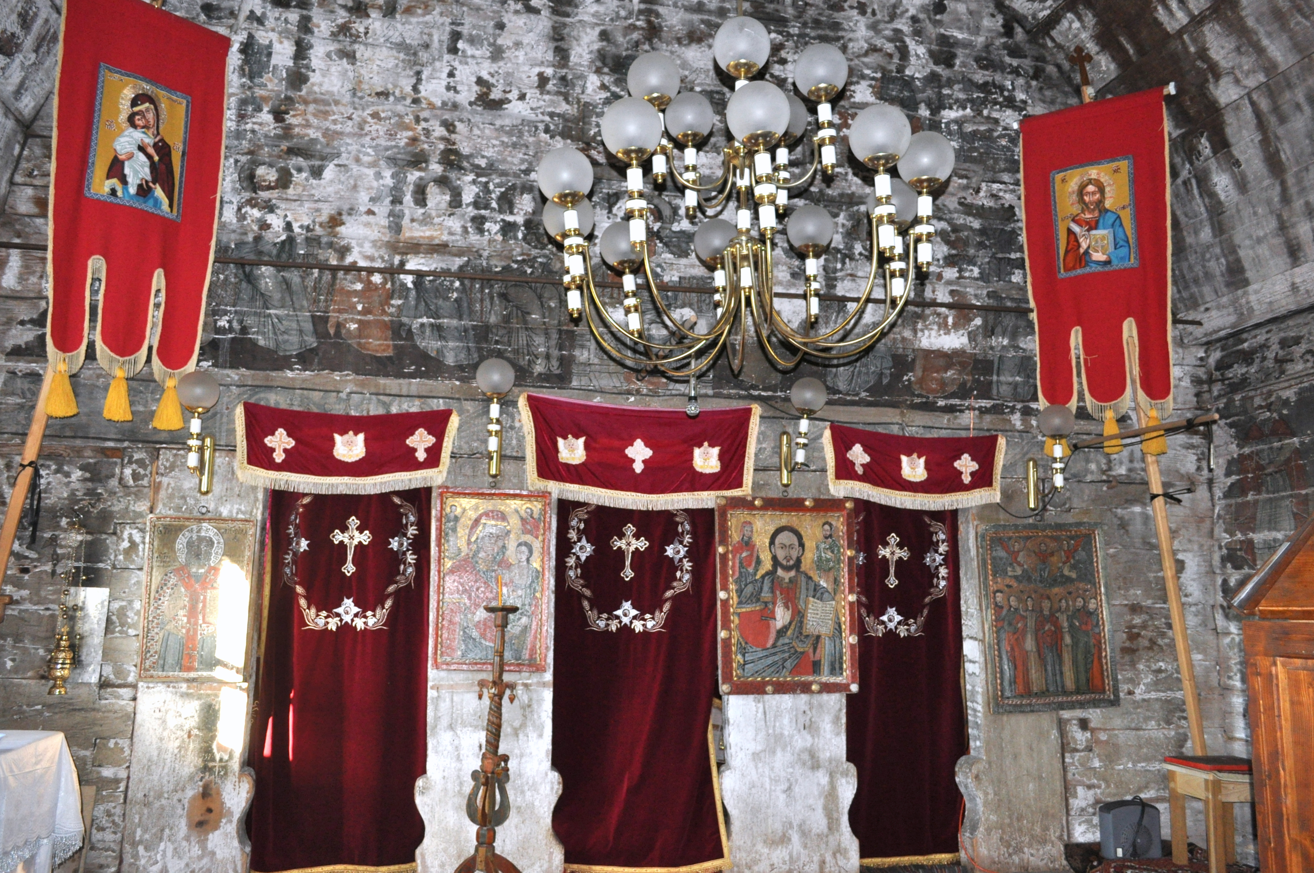 Wooden church in Dealu Negru, Cluj countyRomână: Biserica de lemn din Dealu Negru, județul Cluj